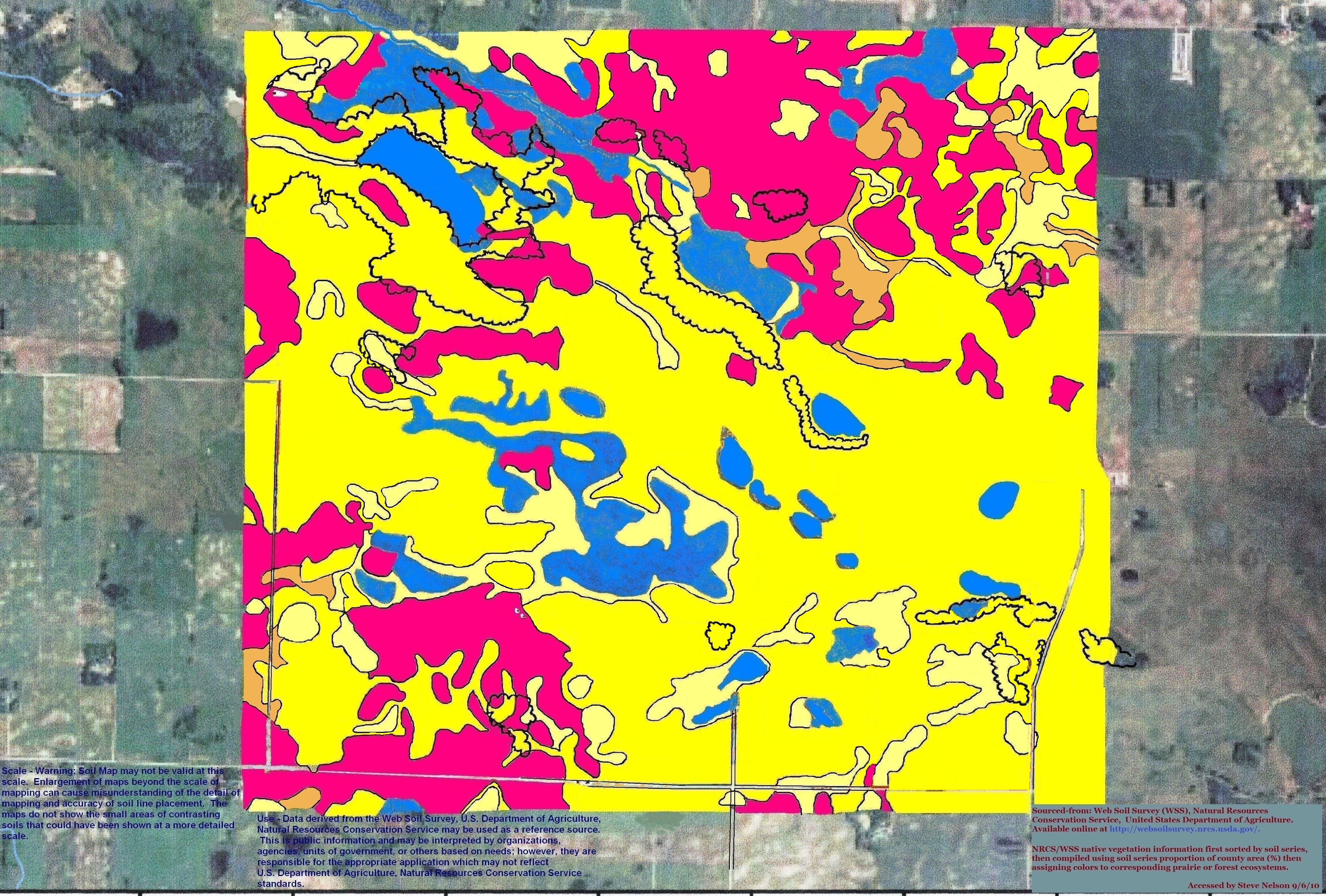 Colored soils map shows the native vegetation in and around Glacial Lakes State Park and Blue Mounds WPA in Pope County, Minnesota. This is an updated version of the 9-1-14 map.